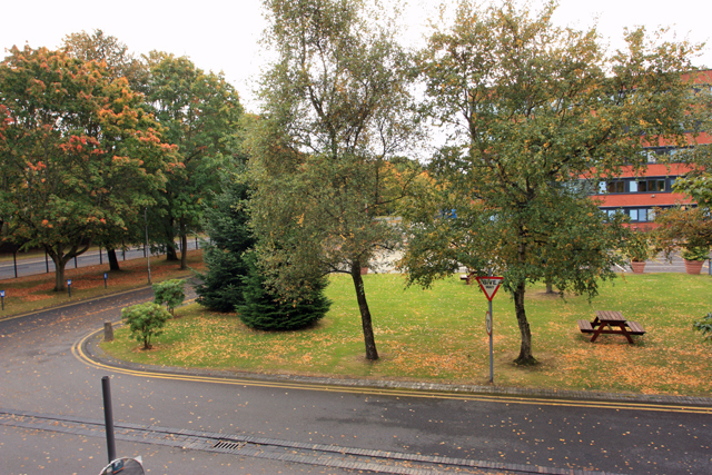 Companies House, Cardiff Companies House is the redbrick building behind the trees. Keywords: Road, trees, building, picnic table, Give Way sign.